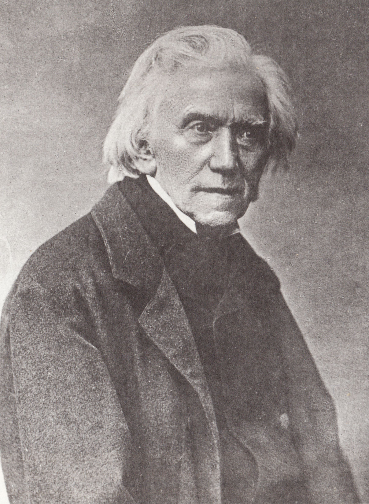 Portrait photograph of Ludwig Richter by August Kotzsch.